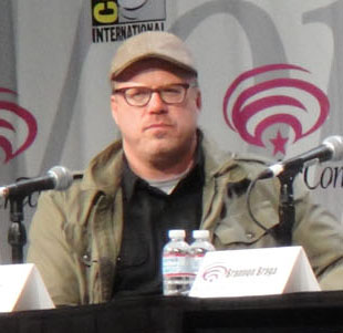 WonderCon 2011 - Terra Nova panel with director Alex Graves, executive producer Brannon Braga, and stars Stephen Lang and Jason O'Mara